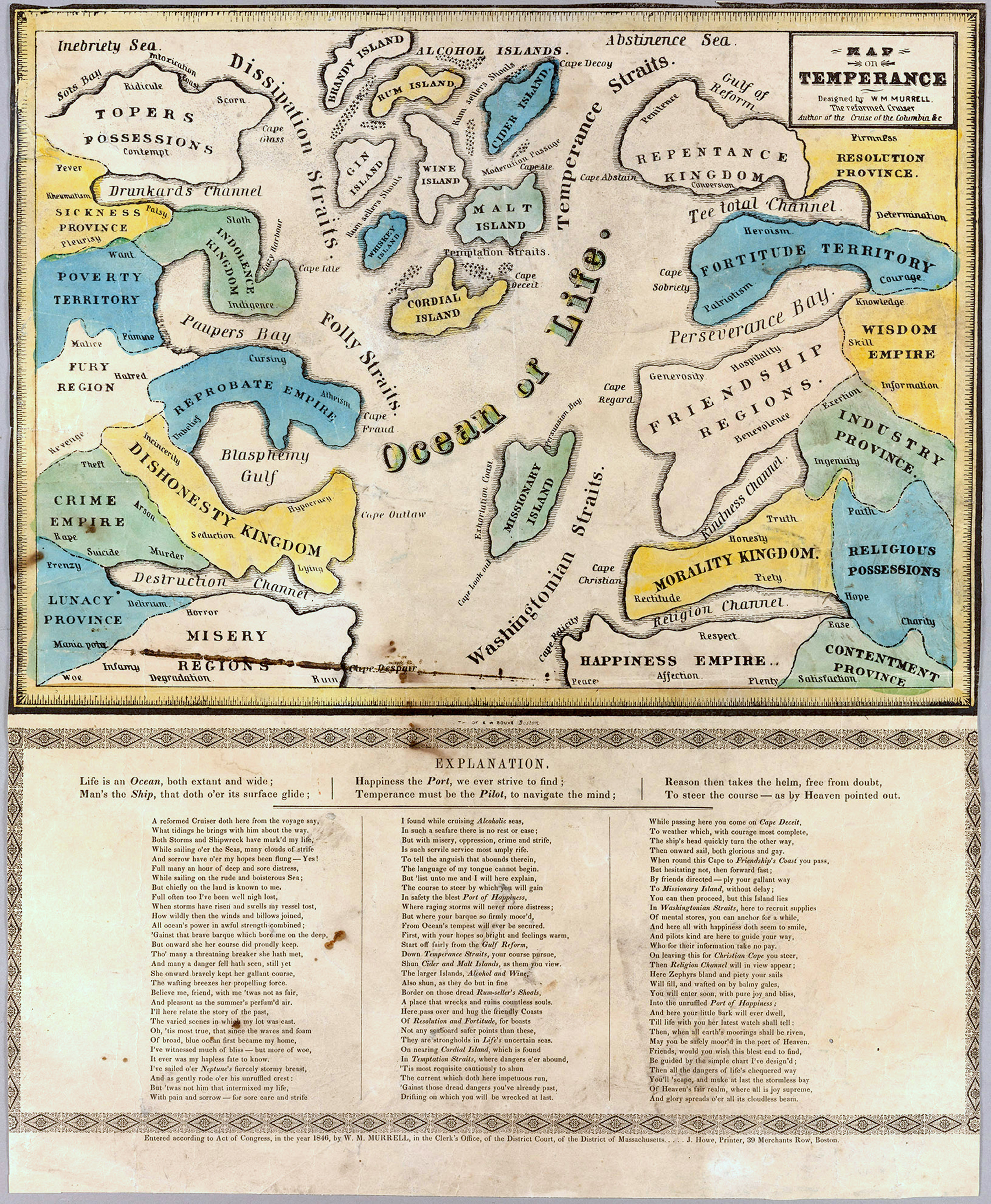 An early allegorical map on temperance, accompanied by a lengthy poem.